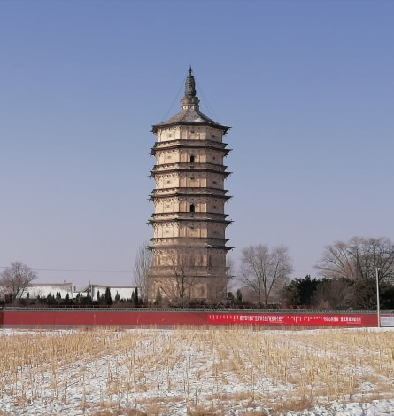 The Wanbu Hauyanjing Pagoda, common known as Baita, in Eastern Hohhot